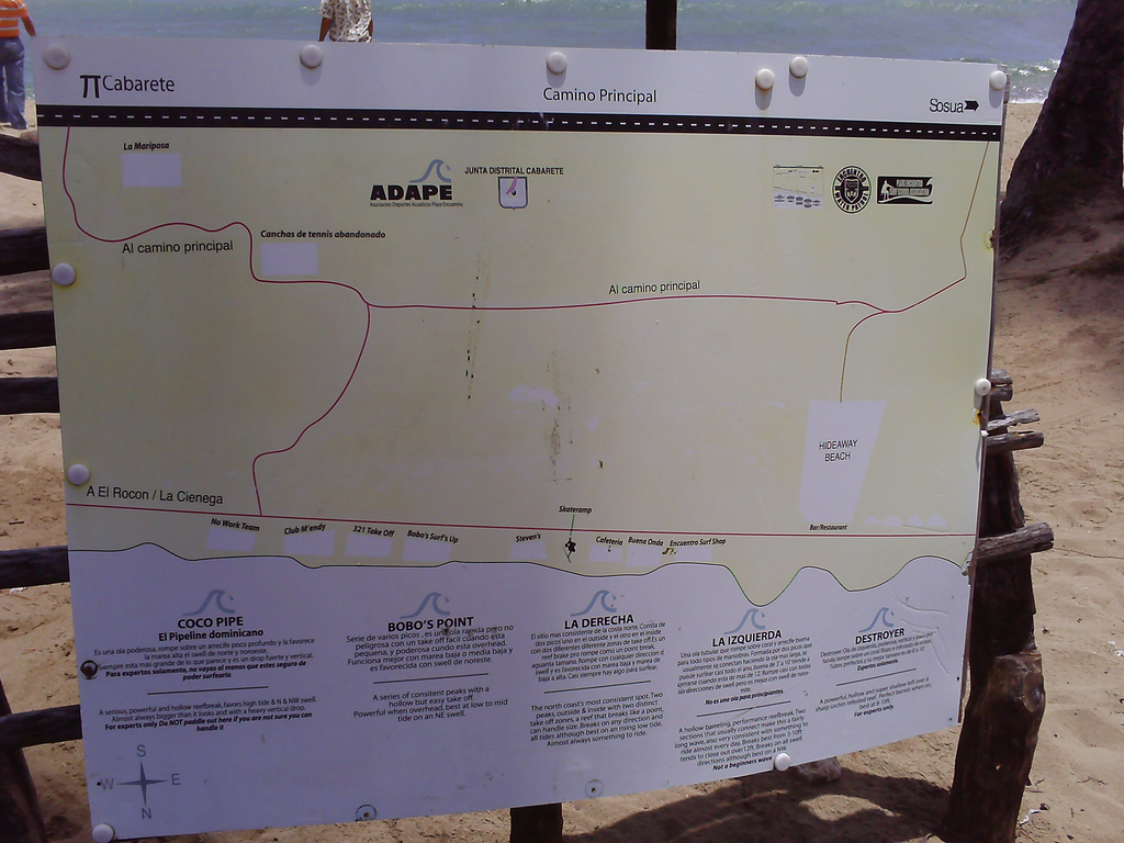 Photograph of a map located at Encuentro Beach, Puerto Plata Province, Dominican Republic